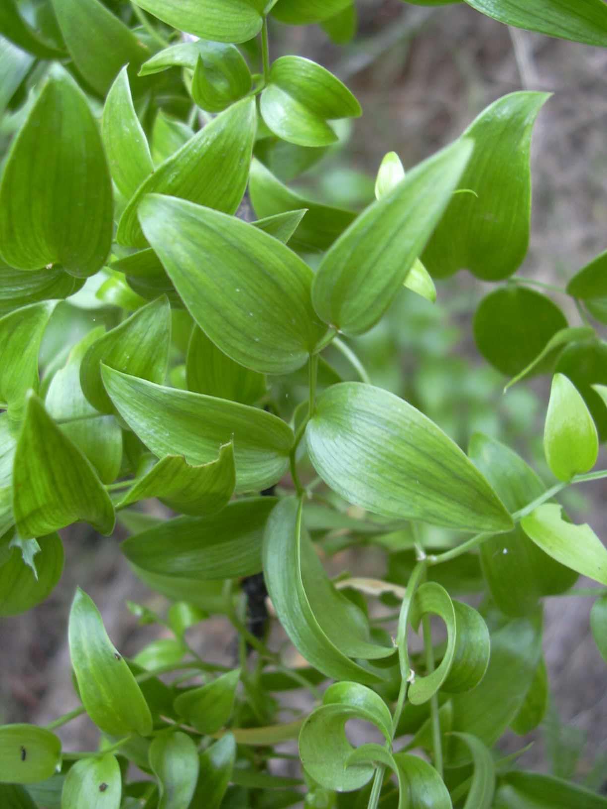 Asparagus asparagoides (leaves). Location: Maui, Kula